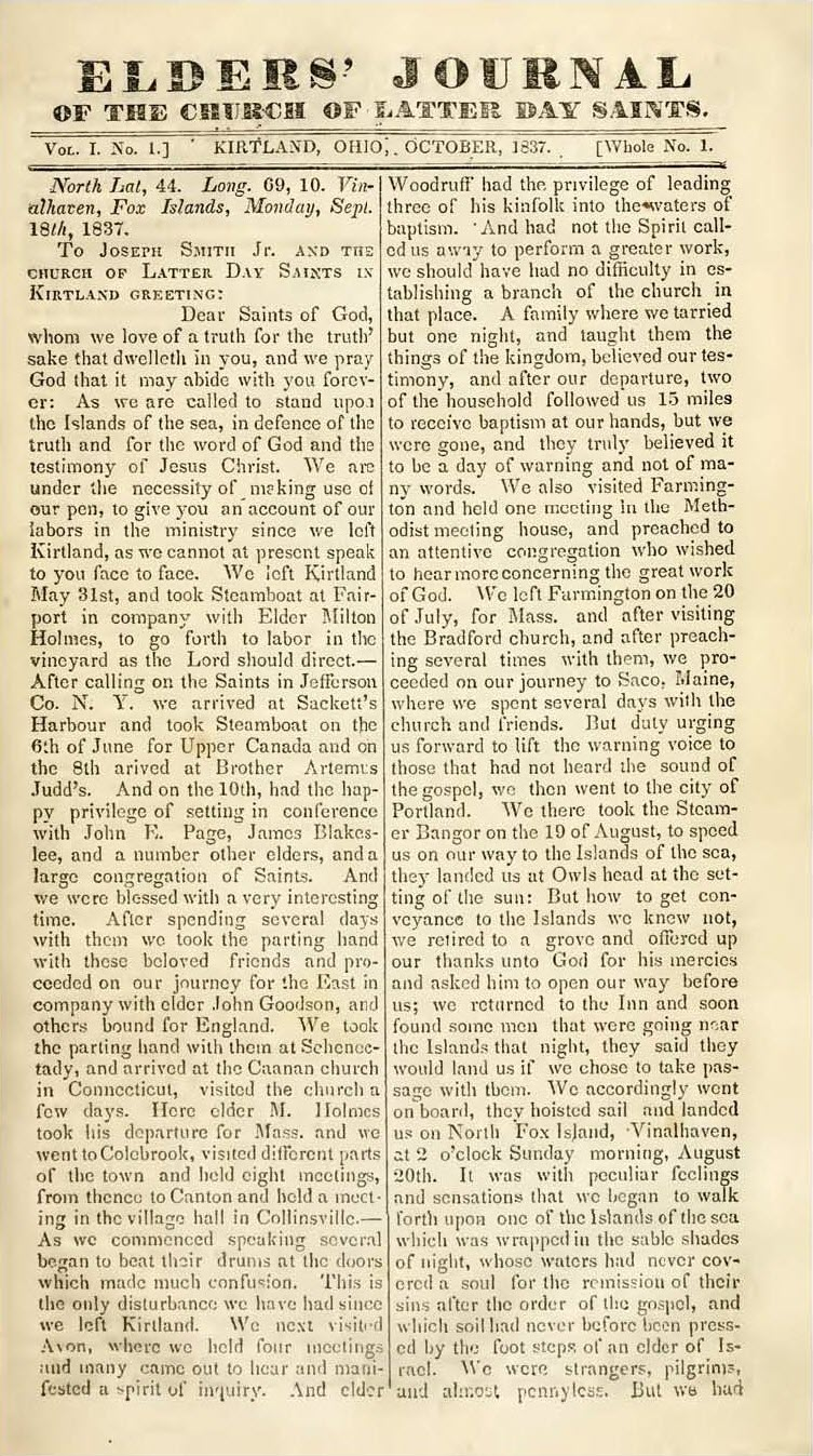 First page of the first issue of the Elder's Journal of the The Church of Jesus Christ of Latter-day Saints. Kirtland, Ohio October, 1837.